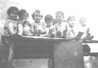 First kibbutz children, Education in Israel